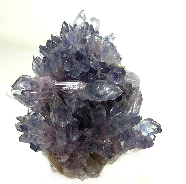 Creedite Locality: Aqshatau Mine, Aqshatau (Akchatau; Akschatau; Akchataul), Qaraghandy Oblysy (Karaganda Oblast'), Kazakhstan (Locality at ) This pristine, roseate cluster is one of the finest creedites I have seen for sale; and is exceptional not just for the locality (an old classic locale, from which few specimens came out to market), but also for the species in general due to the high lustre and great color. The largest crystal is 2 cm in length on this aesthetic, competition-quality miniature. 4.7 x 4.5 x 2.8 cm